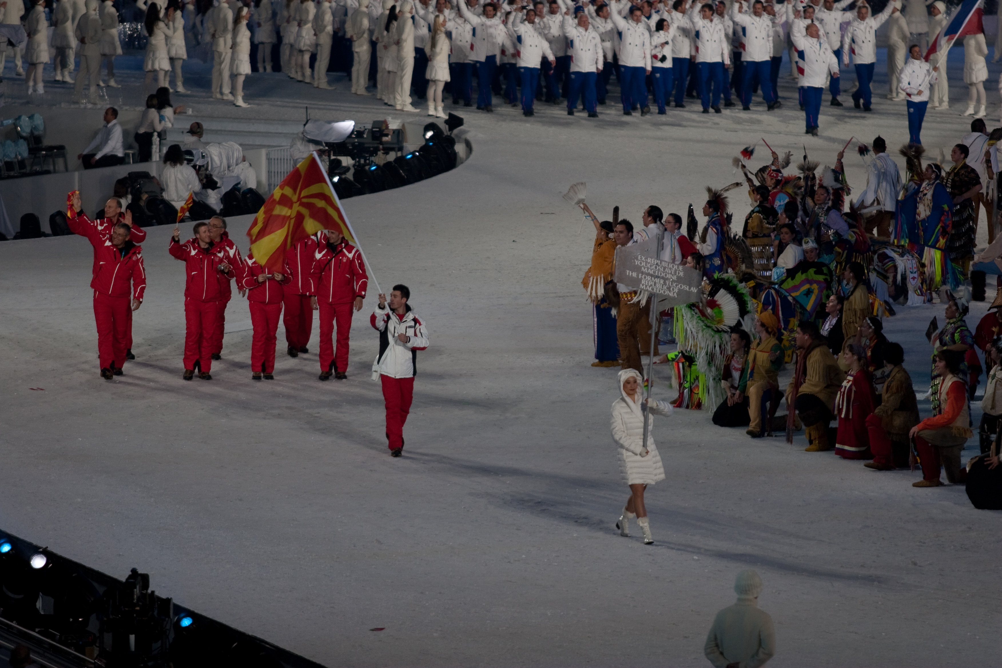 The athletes from Macedonia entering the stadium at the opening ceremonies of the 2010 Winter Olympics